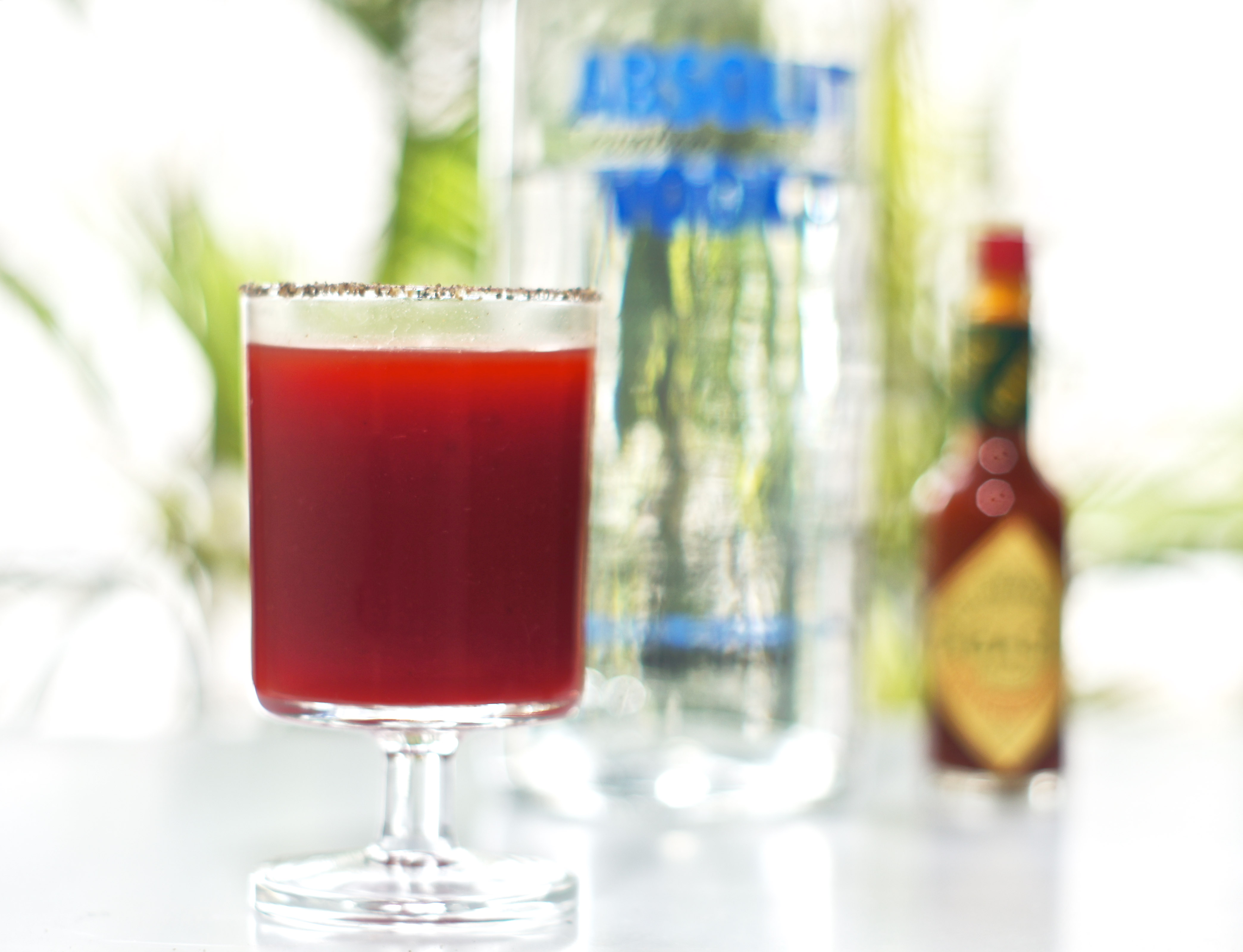 Rub a slice of fresh lime on the rim of a glass, mix salt and pepper and spread this on a sheet of paper and dip the rim in this. 45ml Vodka- My friend Rajesh prefers White Mischief. 90ml Tomato juice-Tropicana(chilled) 15ml lemon juice A dash of tabasco Combine all these and pour in the prepared glass with the salt & pepper rim. N.B. The spicy flavor masks the Vodka-so don't use premium Vodka.